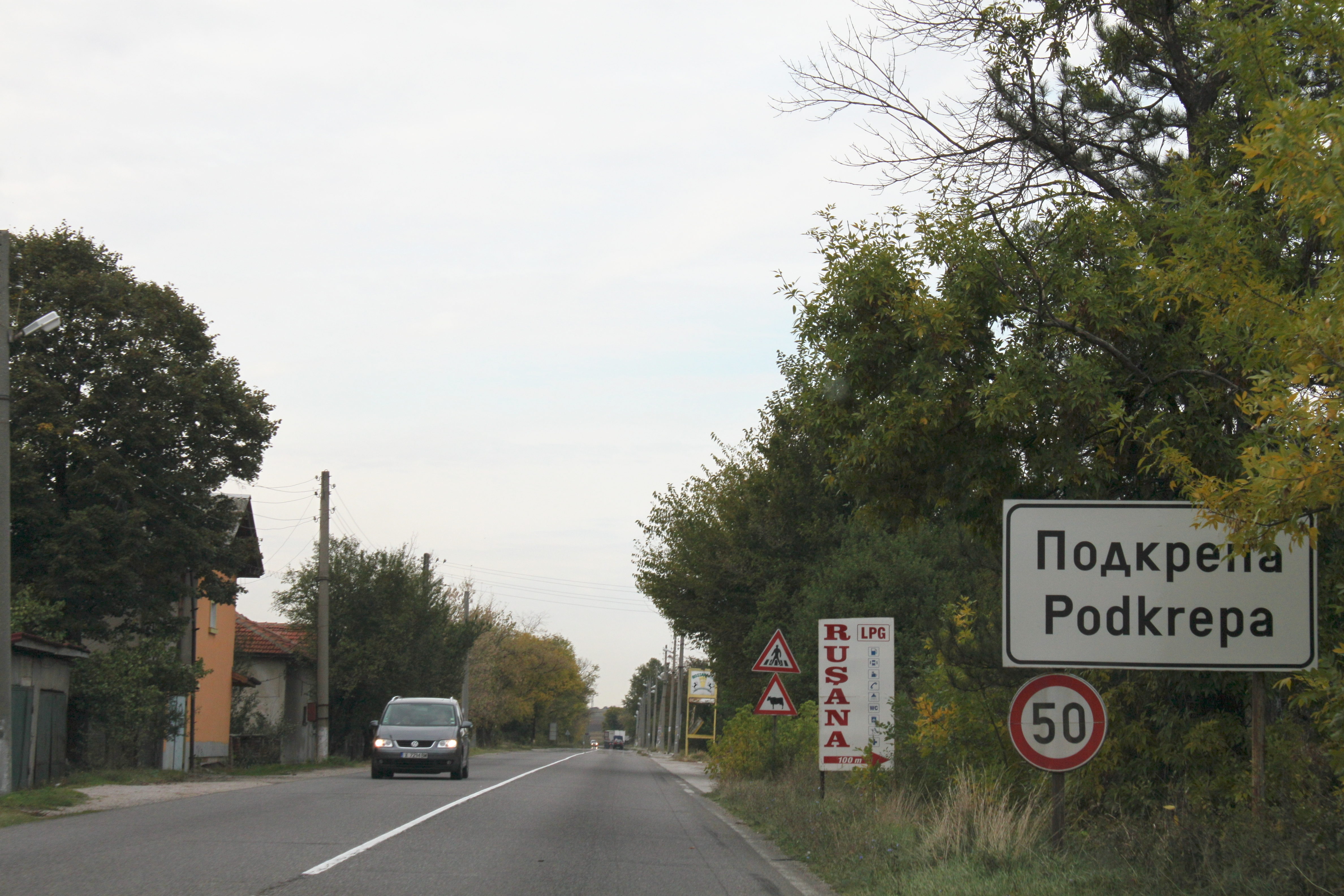 Podkrepa, Haskovo District, Bulgaria